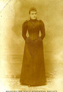 Georgiana, nee Mitchell, author, Early History of Thurston County, first married Smith, then George Blankenship Jr. Georgiana, WSHS C1952.226.25; see links to homes above under George Jr.